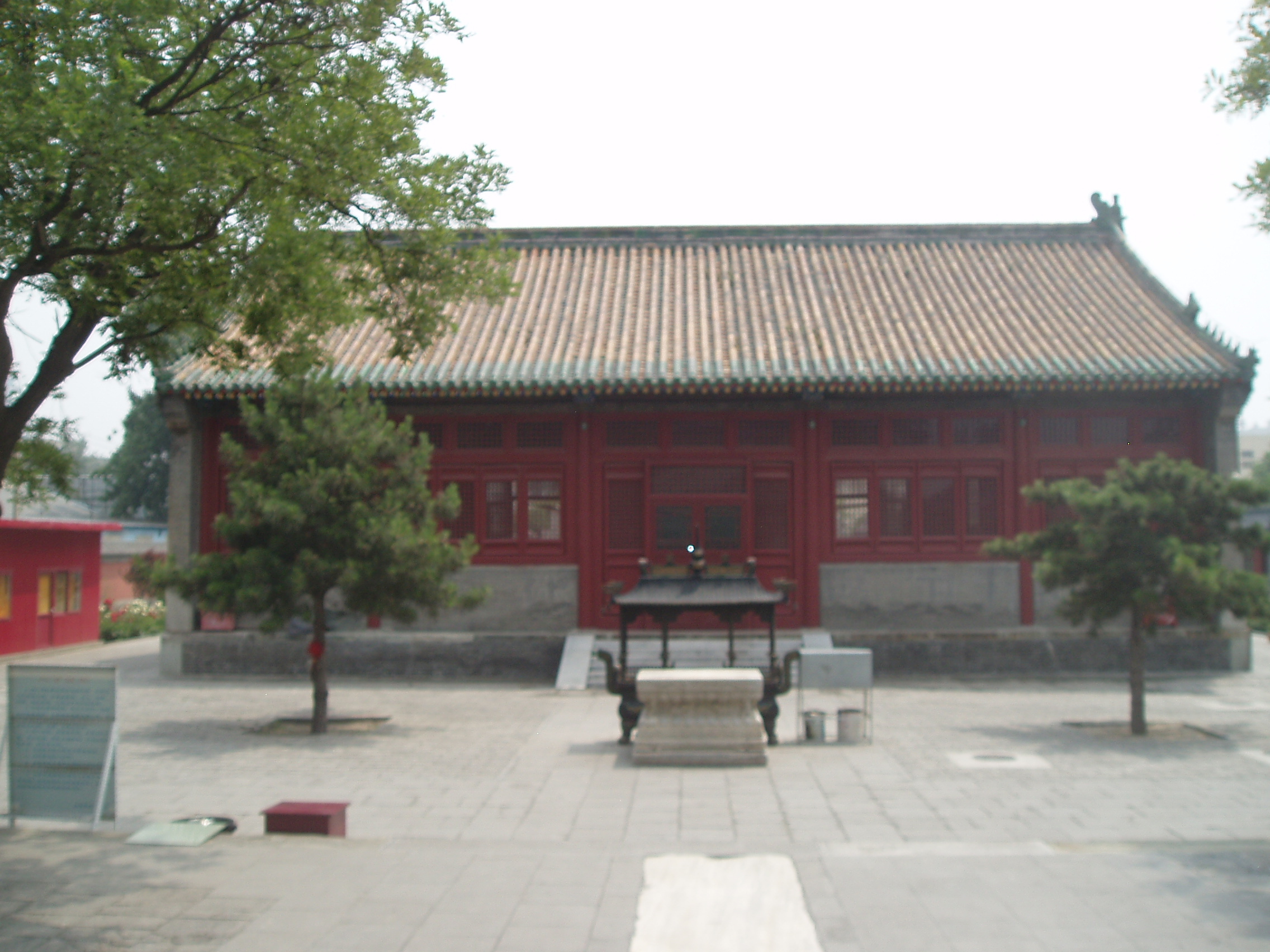 Looking south